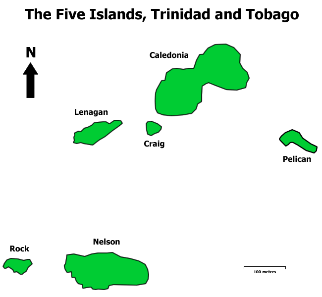 Map of the Five Islands in Trinidad and Tobago. Note there are in fact six islands, the deriving of the name "Five Islands" is something of an urban legend